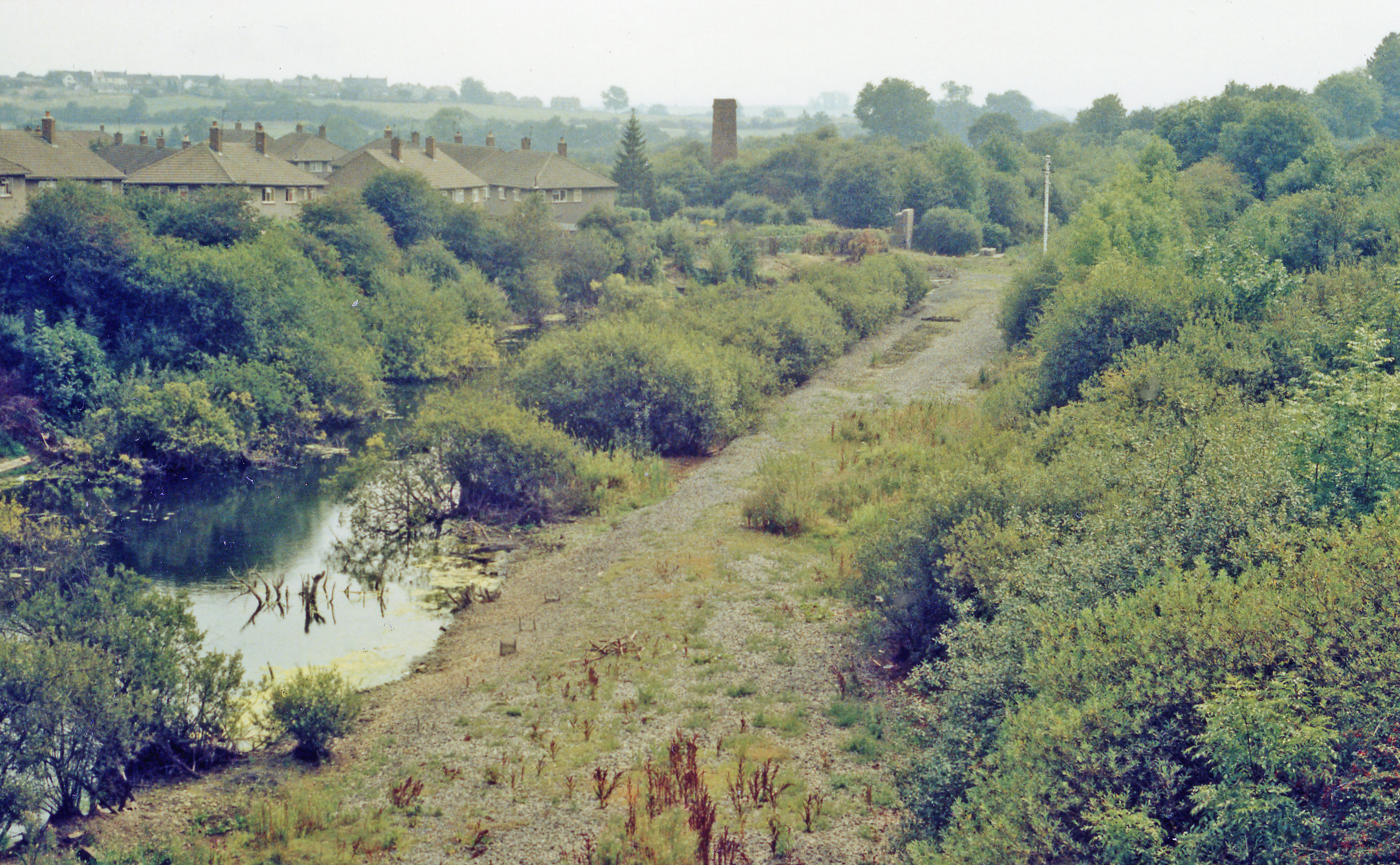 Site of former Donisthorpe station. View southward, towards Nuneaton: ex-LNW & Midland Joint Nuneaton - Moira branch, all closed right back in 4/31 - so, no wonder!